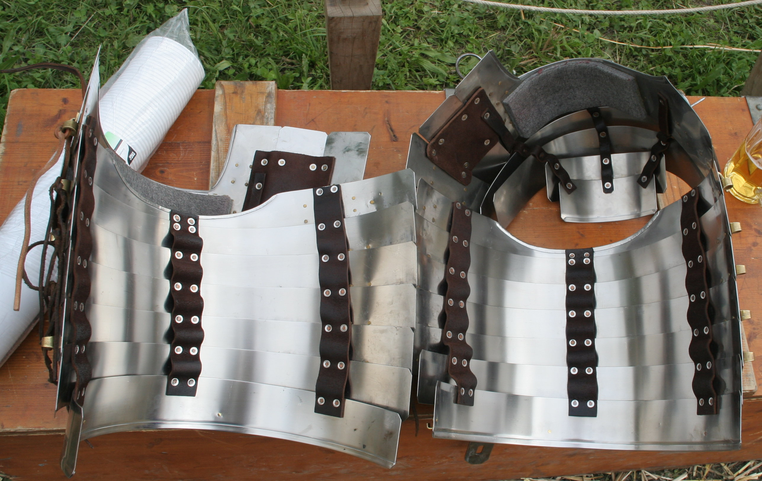 Lorica segmentata from inside Photographed by myself during a show of Legio XV from Pram, Austria